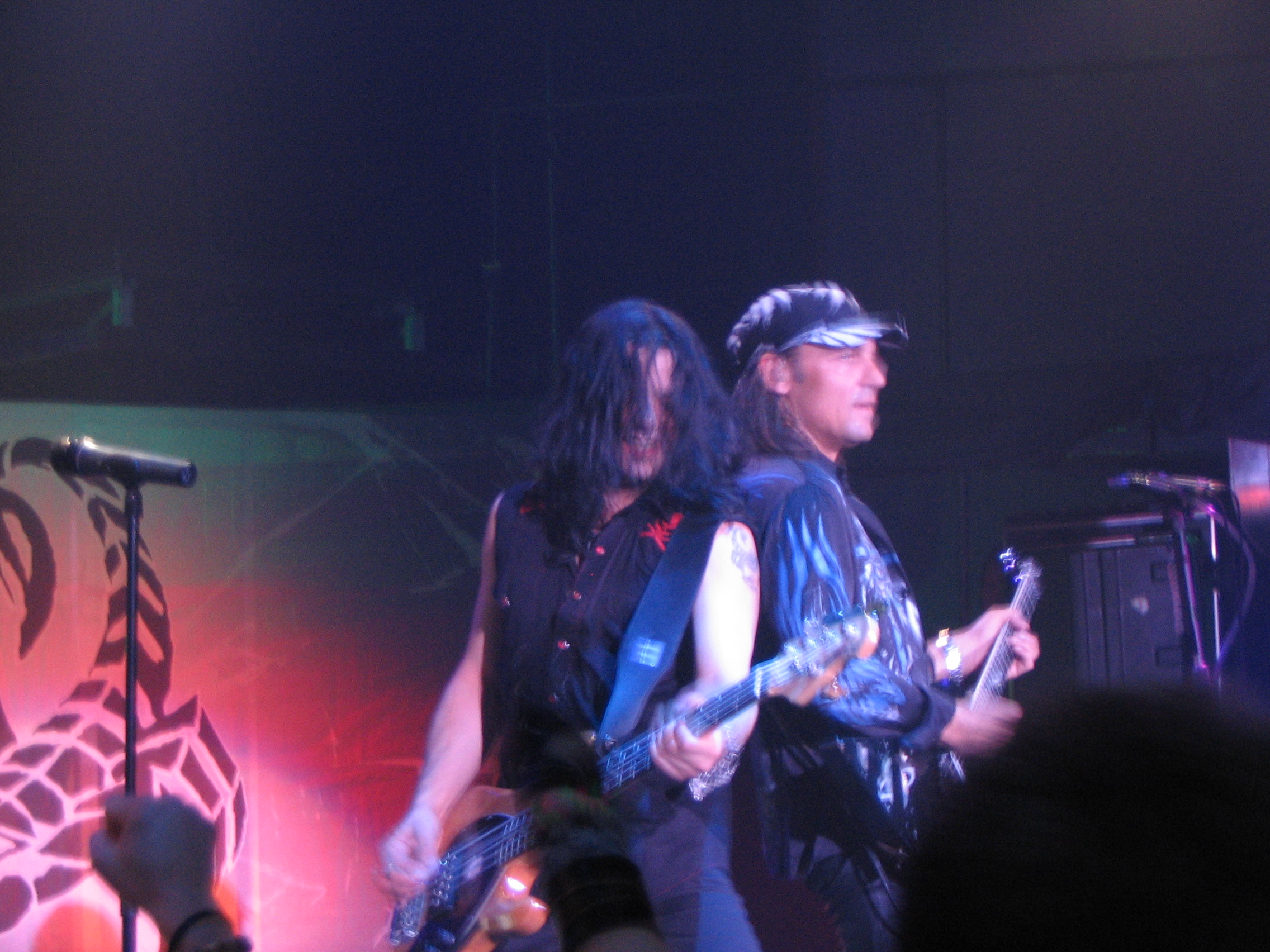 Matthias Jabs and Ralph Rieckermann of Scorpions.Scorpions-24